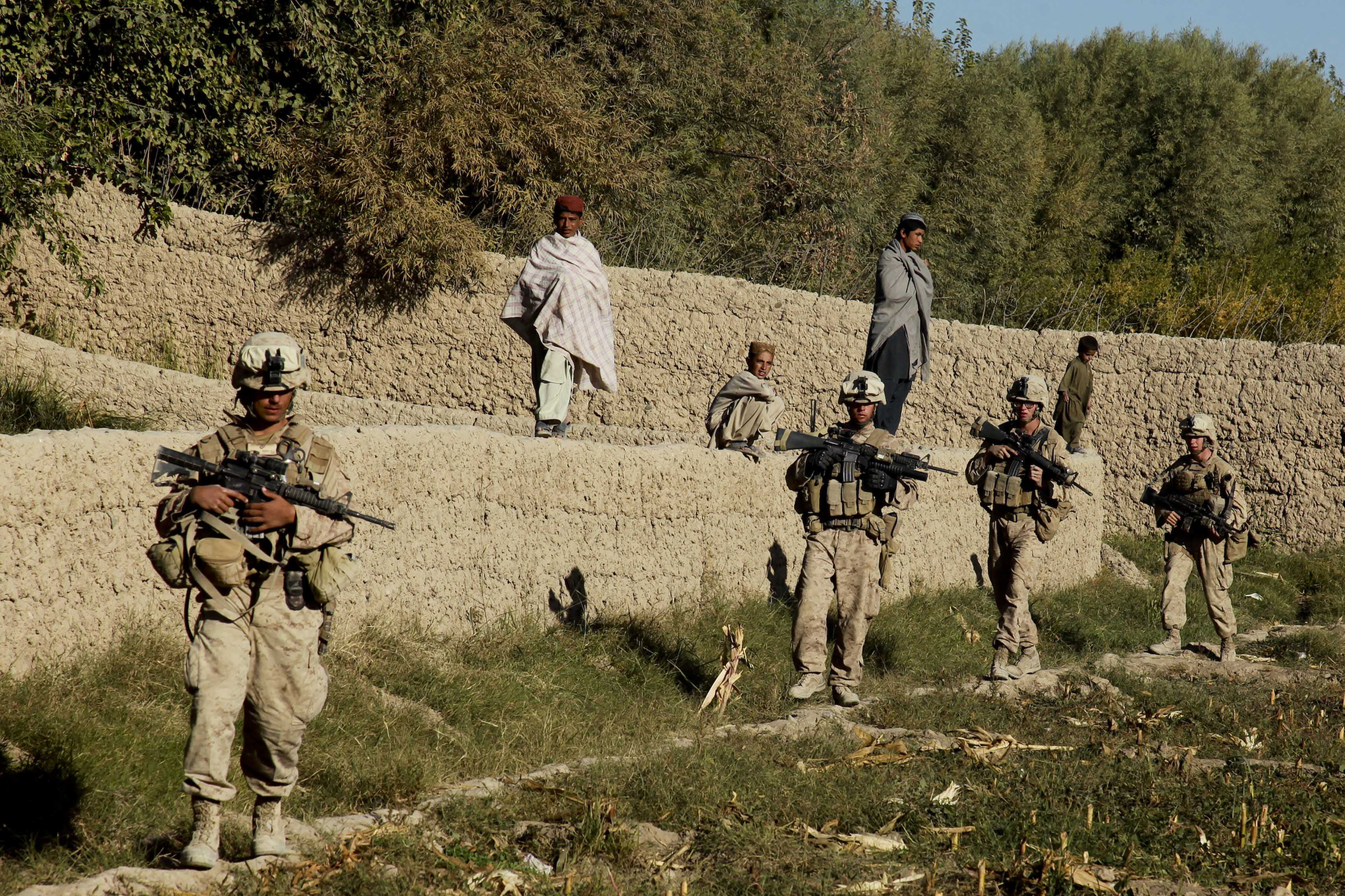 U.S. Marines with Bravo Company, 1st Battalion, 5th Marine Regiment conduct a security patrol through the Nawa district of Helmand province, Afghanistan, on Oct. 18, 2009. Marines conduct security patrols to decrease insurgent activity and gain the trust of the Afghan people. The Marines are deployed with Regimental Combat Team 3 to conduct counterinsurgency operations with Afghan National Security Forces in southern Afghanistan.